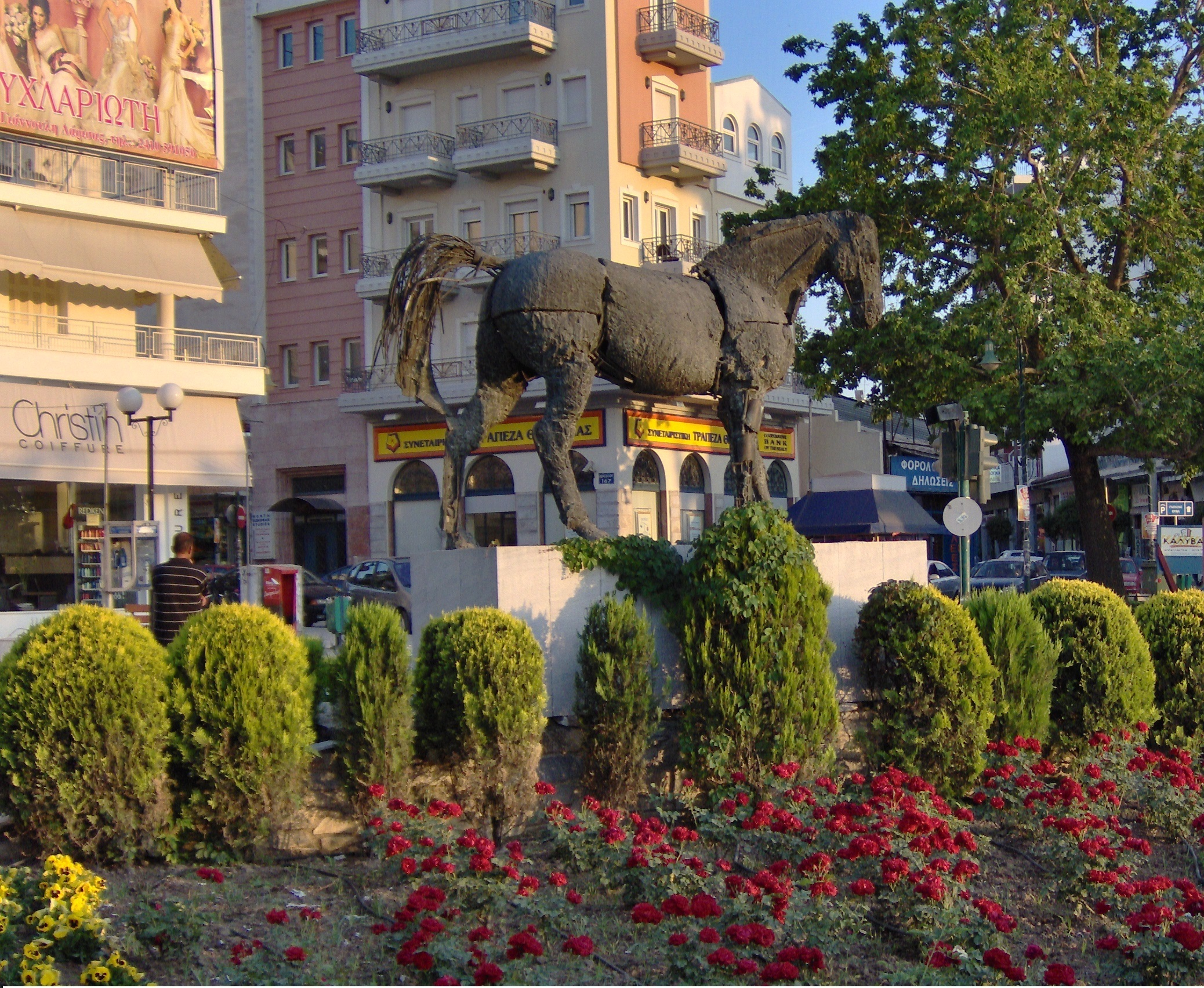 The horse is symbol of Larisa. He was made at 1994 of Milto Papastergiu.